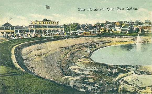 Bass Point Beach, Bass Point, Nahant, MA; from a c. 1910 postcard.